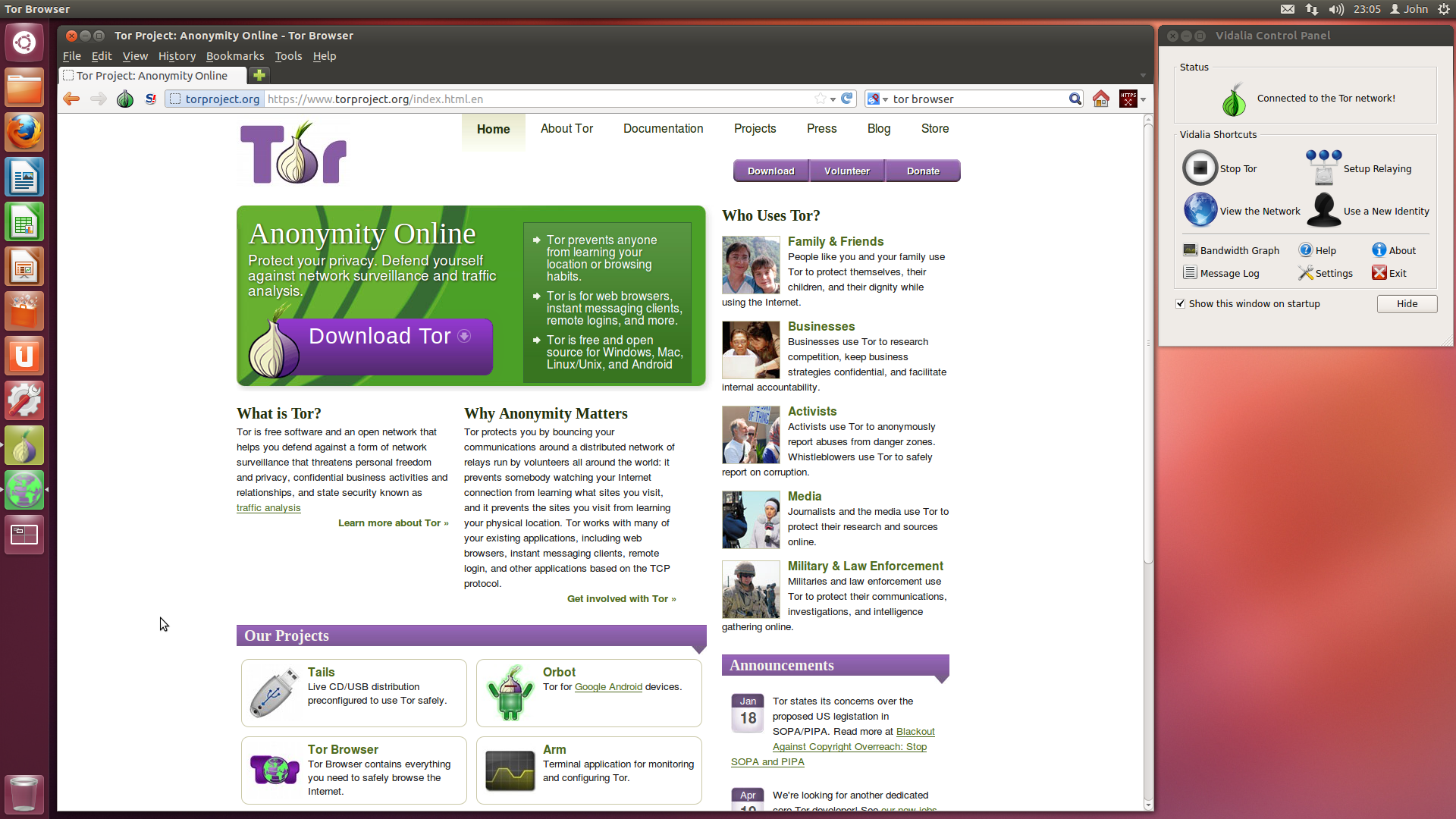 The Tor Browser Showing The main Tor Project page in Ubuntu 12.04. Tor Browser Bundle Version 2.2.37-1 - Linux, Unix, BSD (64-Bit).